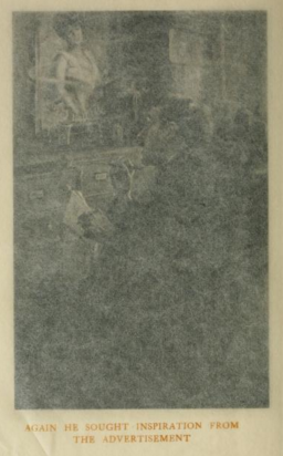 Frontispiece for Traffics and discoveries